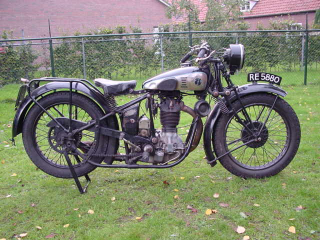 FN M67 500 cc motorcycle from 1932.